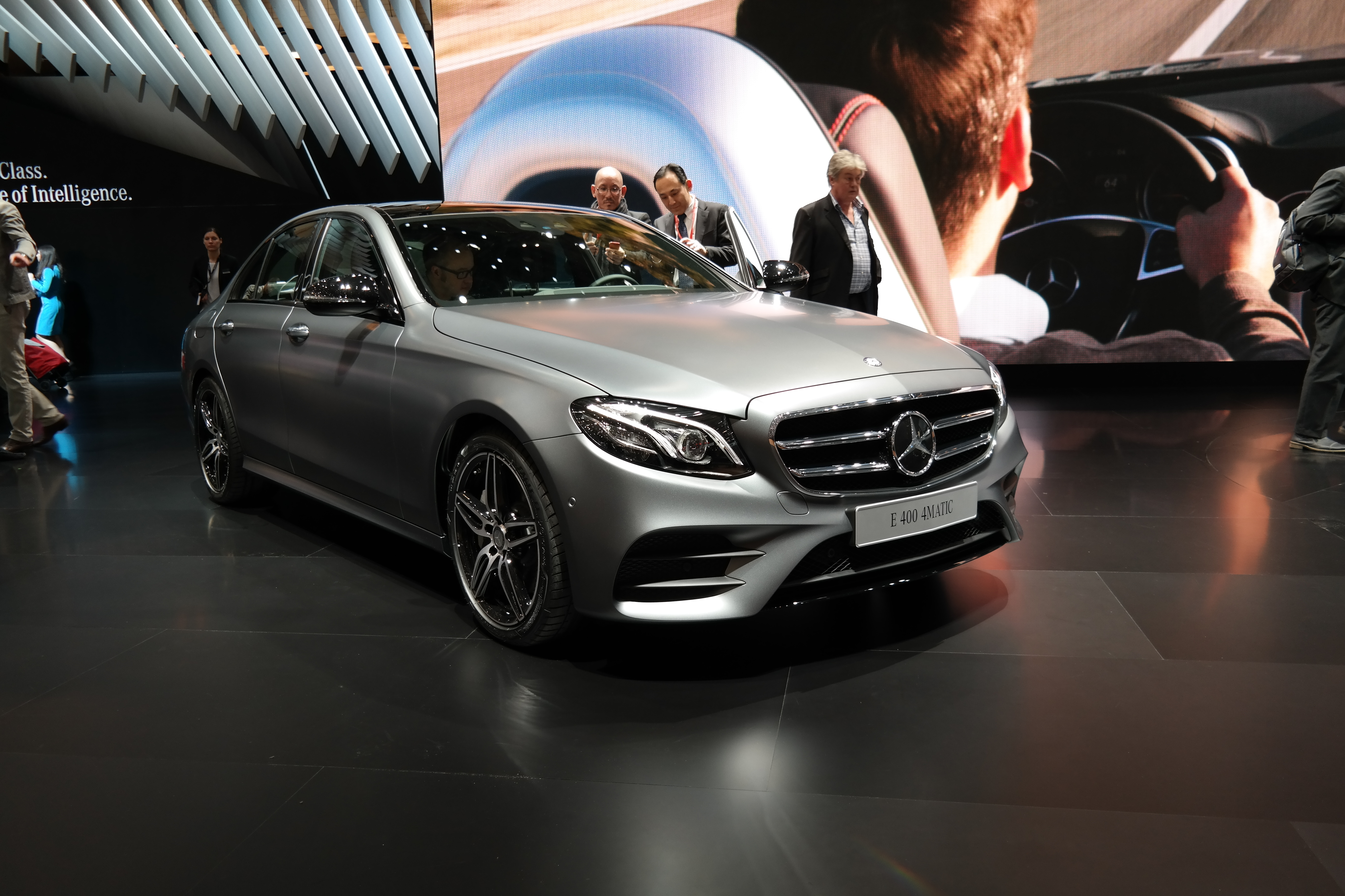 Geneva Motor Show 2016 (photo taken on the first press day)